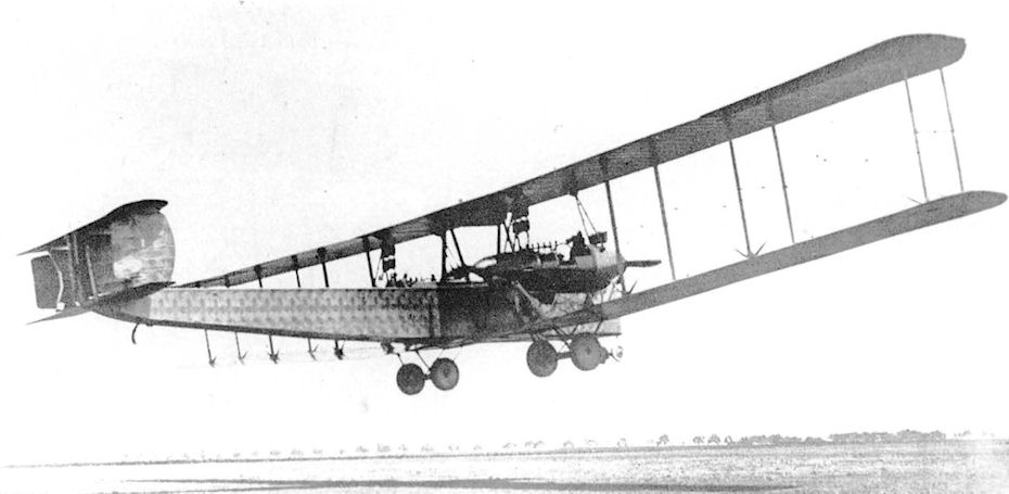 Photo of Zeppelin-Staaken R.XVI WW1bomber samf4u, 2.jpg